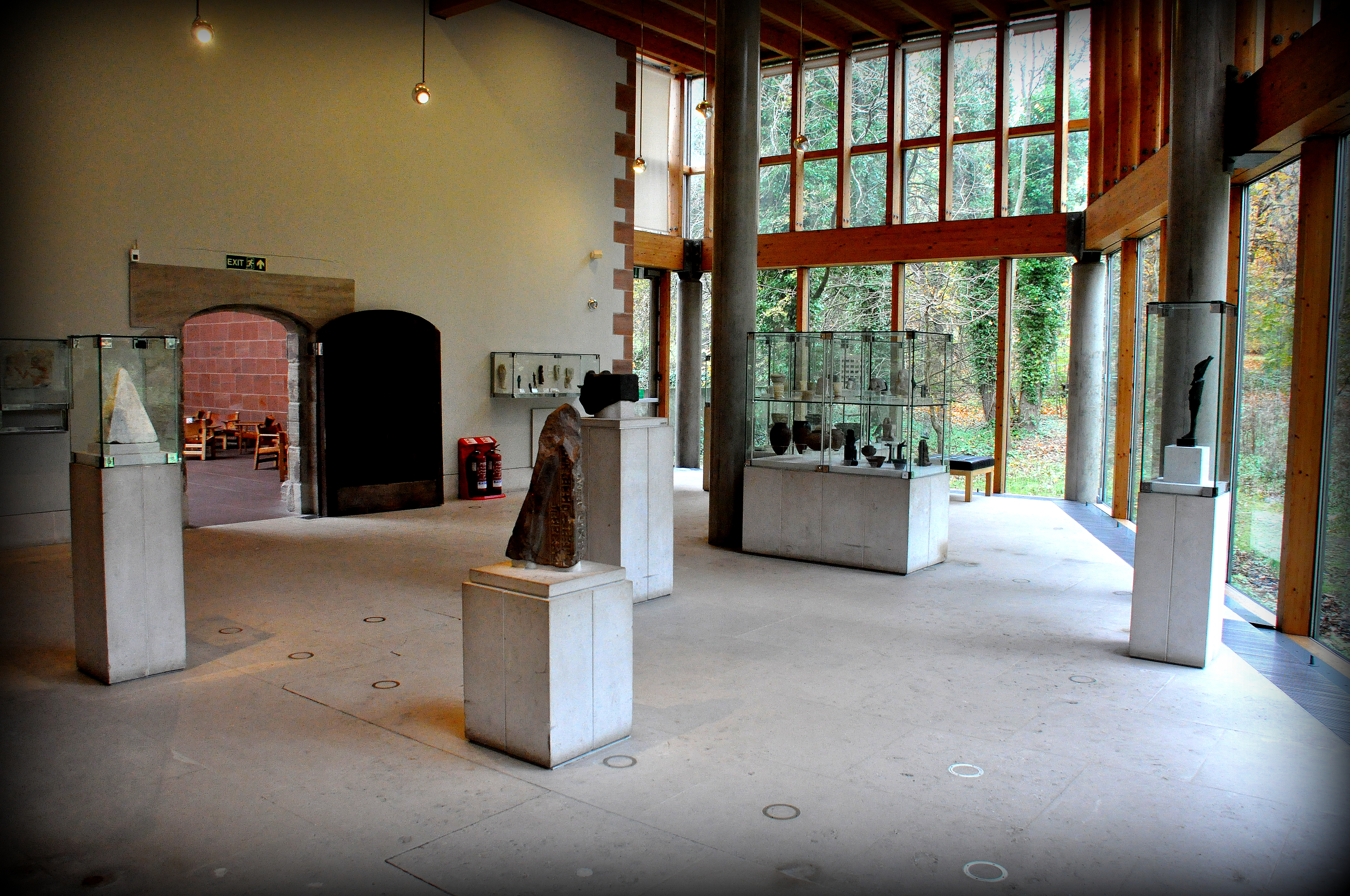 This hall contains several artifacts from ancient Egypt. The Burrell Collection, Glasgow, Scotland, UK.